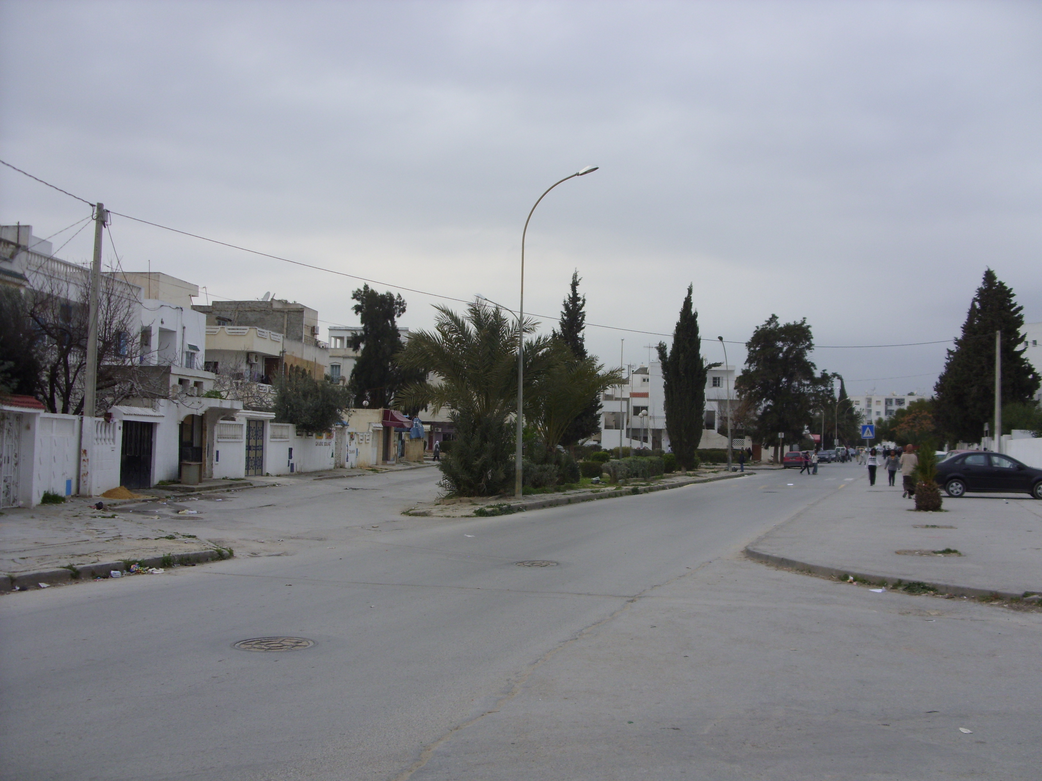 Ibn Maja Street in Cité El Khadra, Tunis